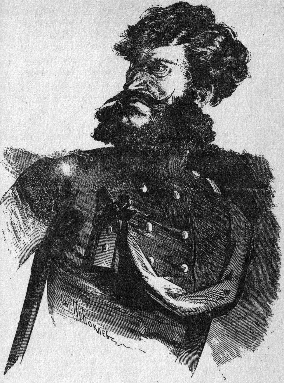 Captain Kopeikin. Illustration for Nikolai Gogol's Dead Souls.